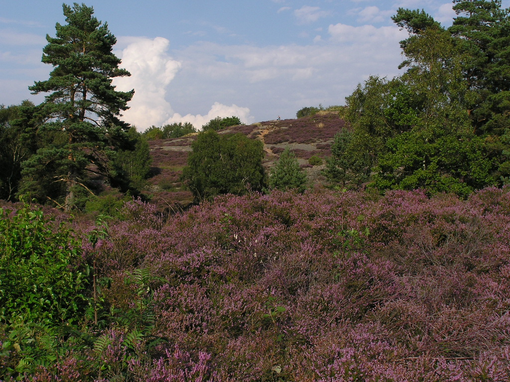 Heath at Bredfjäll, Änggårdsbergen, Göteborg, Sweden